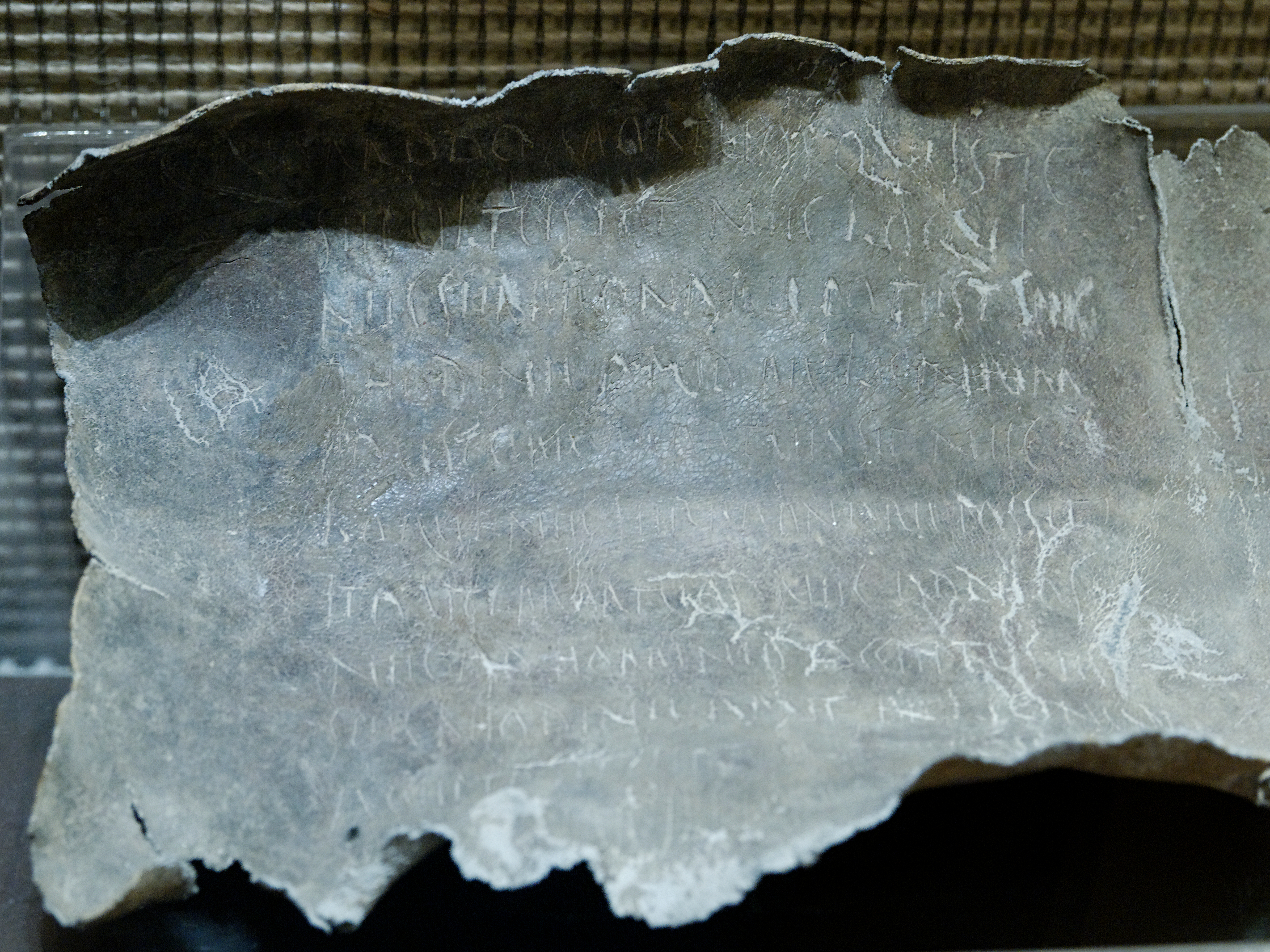 Left part of a defixio (curse tablet) against Rhodinē. Latin inscription: “Just as the dead man who is buried here can neither speak nor talk, so may Rhodine die as far as Marcus Licinius Faustus is concerned and not be able to speak nor talk. As the dead man is received neither by gods nor humans, so may Rhodine be received by Marcus Licinius and have as much strength as the dead man who is buried here. Dis Pater, I entrust Rhodine to you, that she be always hateful to Marcus Licinius Faustus. Also Marcus Hedius Amphio. Also Gaius Popillius Apollonius. Also Vennonia Hermiona. Also Sergia Glycinna.”